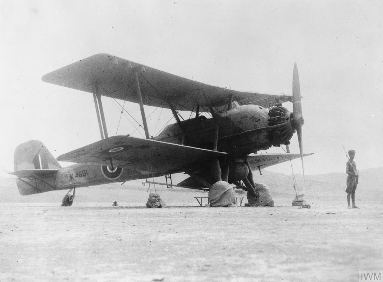 Aircraft of the Royal Air Force 1939-1945- Vickers Vincent. Vincent K4681 of the Aden Communications Flight, under guard at Mukeiras landing ground in Southern Arabia, while delivering supplies to the RAF rest camp there.